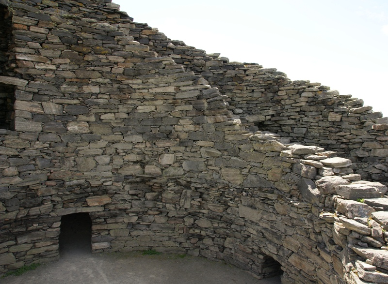 Dun Carloway, Lewis, Scotland, interior detail